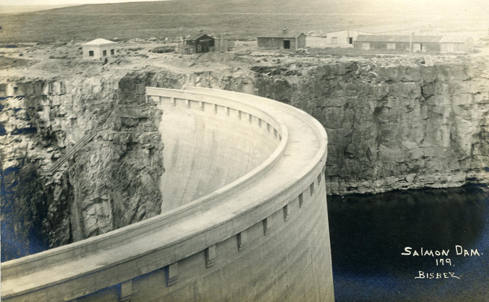 Postcard of Salmon Falls Dam near Twin Falls, Idaho, USA, as newly completed in 1910